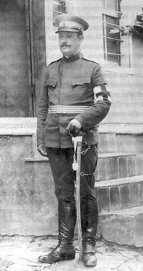 portrait of Stamen Grigorov